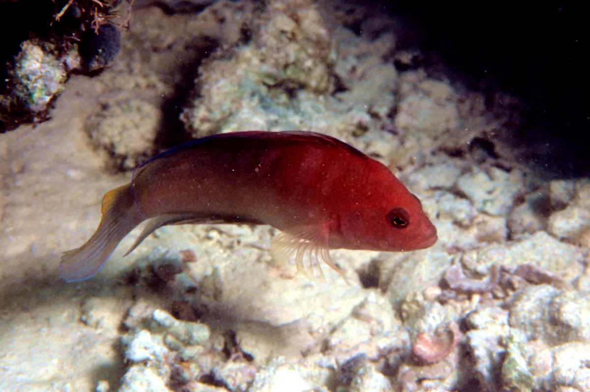 A Queensland Dottyback, Ogilbyina queenslandiae, at One Tree Island, Queensland.